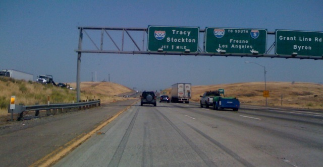 I-205 towards I-5 north (Specifically, this is really eastbound I-580 at Grant Line Road about one mile away from the I-580/I-205 split).